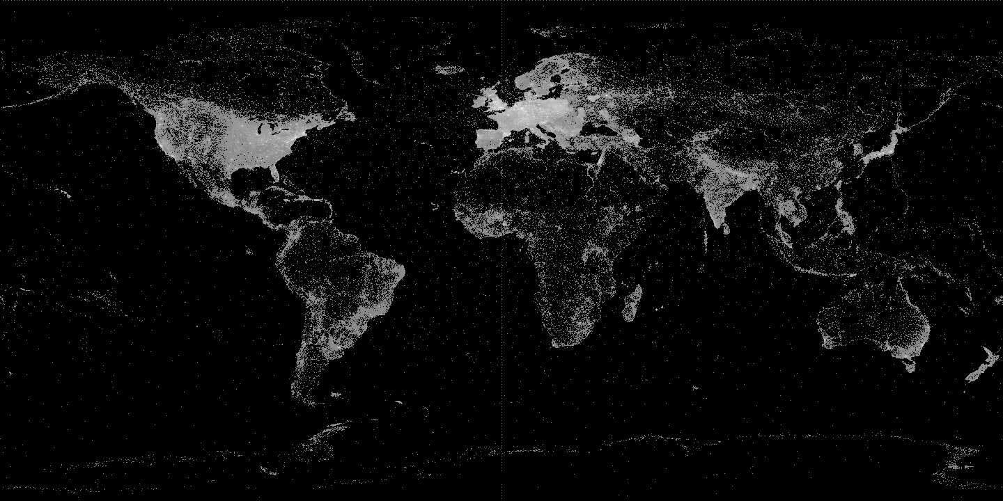 Own work. Distribution of articles by geotag. Created from the data of Wikipedia:WikiProjekt_Georeferenzierung/Wikipedia-World/en shows the count of entries by longitudinal and latitudinal in logical scale. Comparisons with: Image:Geonames4.png and Image:Earthlights dmsp.jpg.